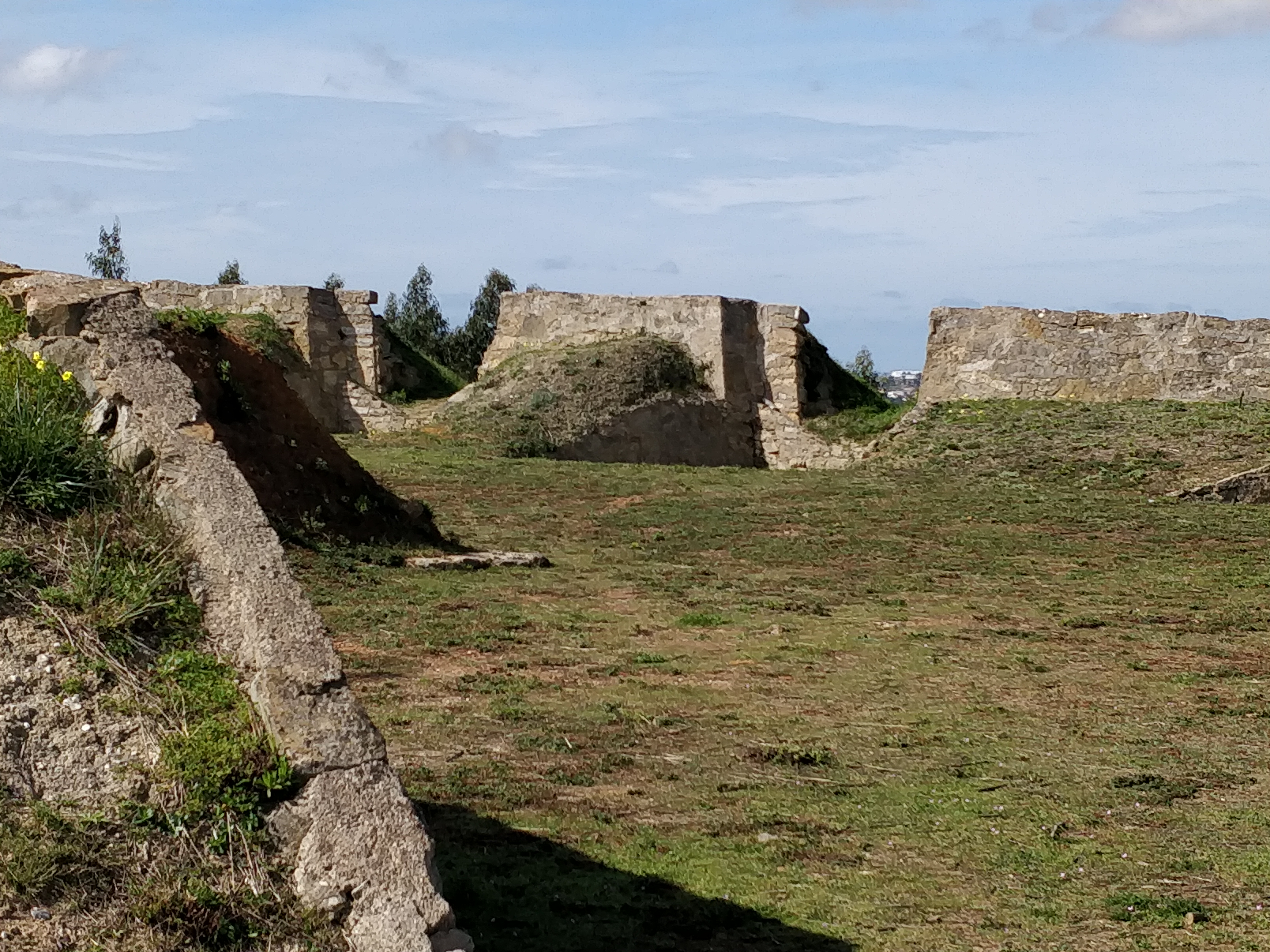 View of the Fort of São Vicente in Torres Vedras, Portugal.